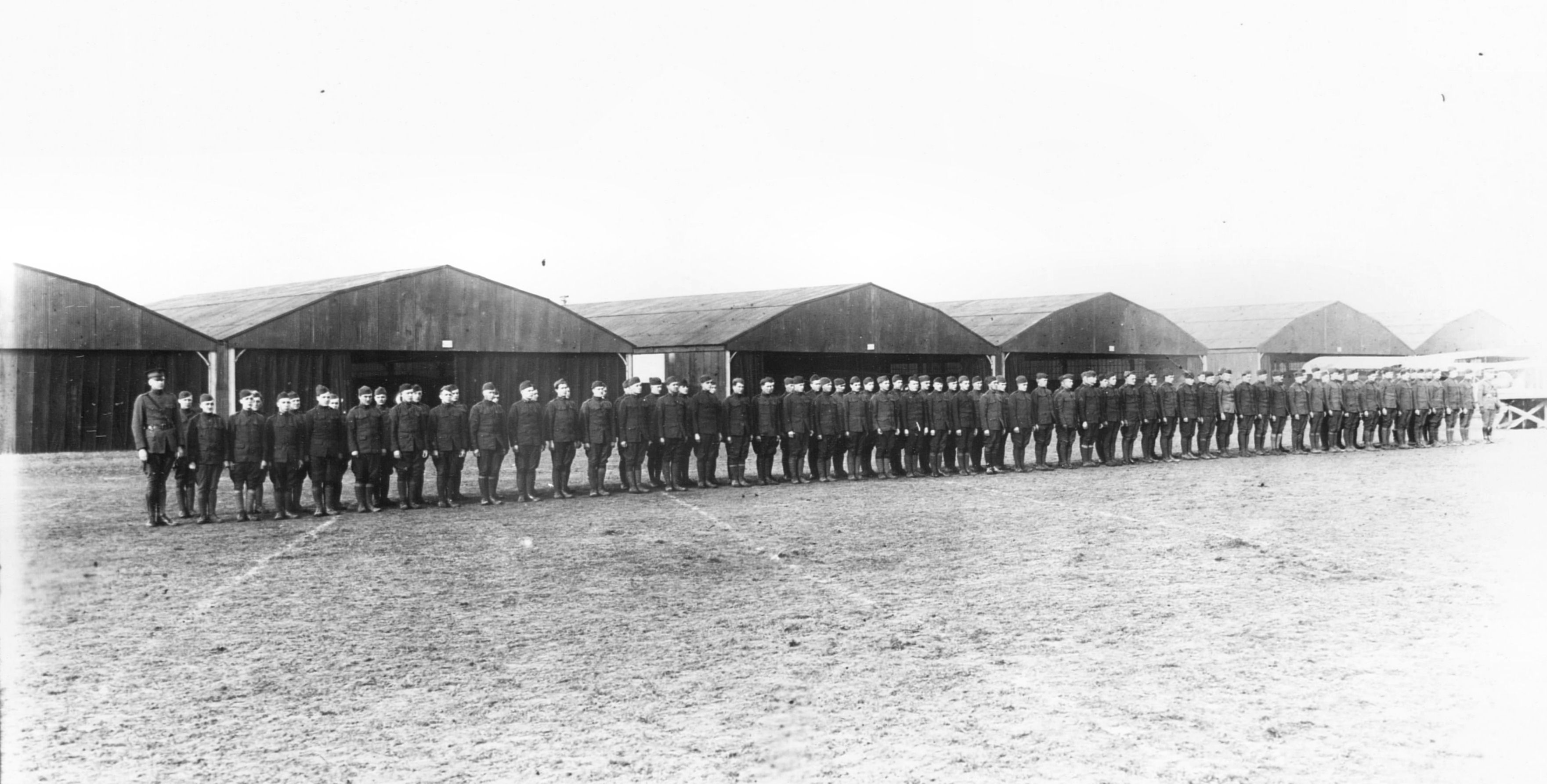 115th Aero Squadron, 2d Air Instructional Center Tours Aerodrome, France, November 1918